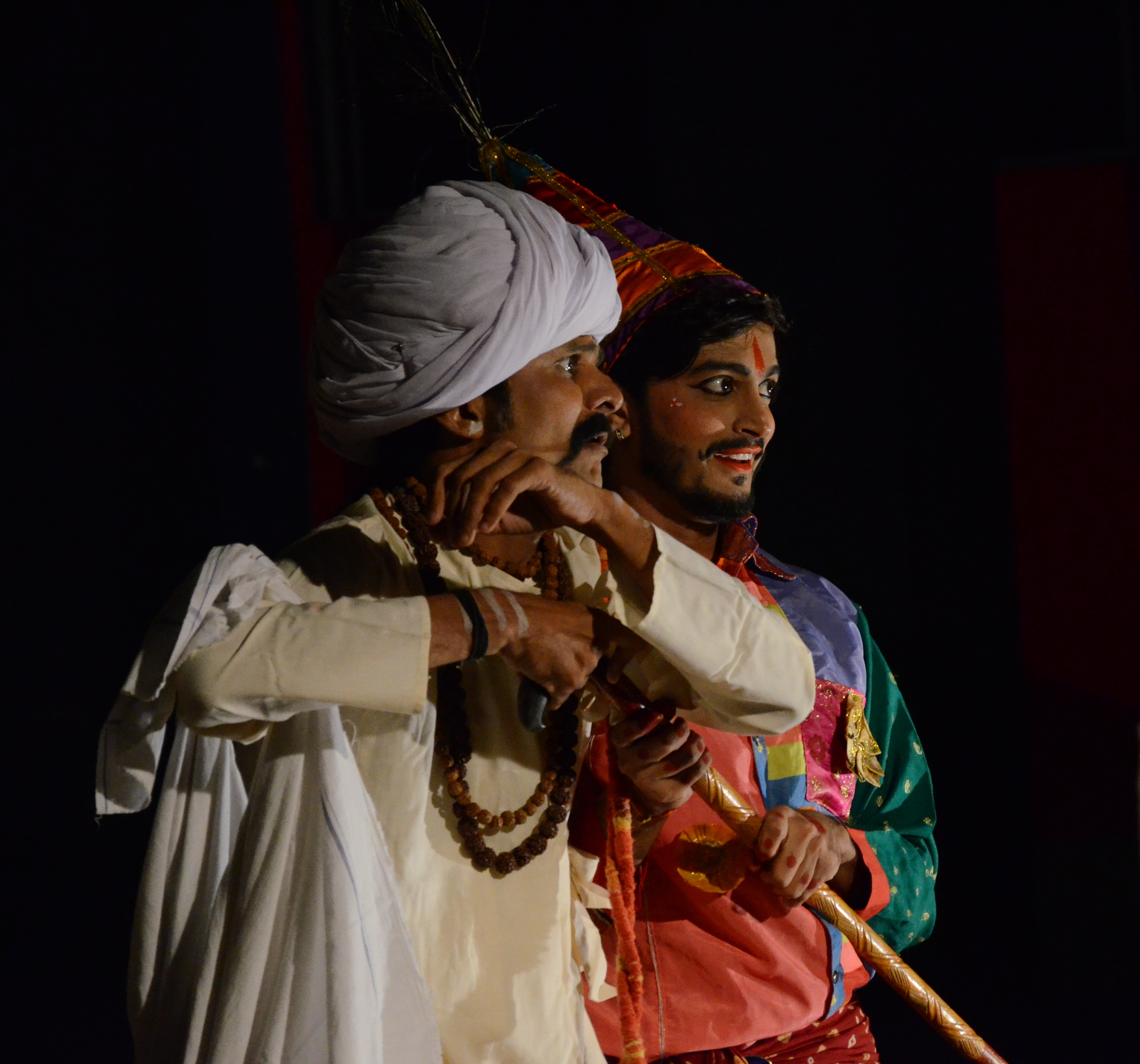 Perfomance of Gujarati play Mithyabhiman at saurastra literature Festival rajkot